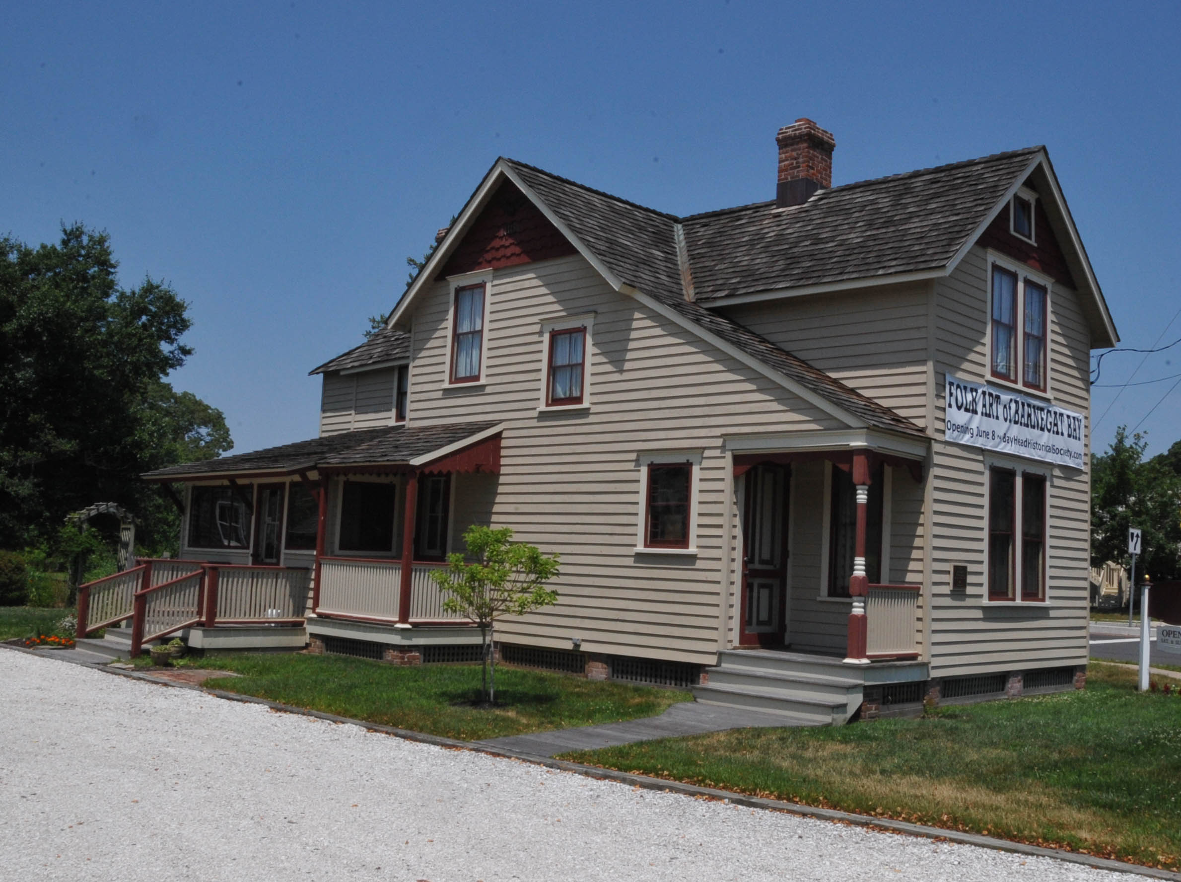 HEADQUARTERED IN AN AUTHENTIC 1867 FARMHOUSE BUILT BY THE LOVELAND FAMILY FROM ENGLAND